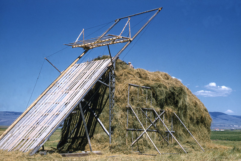 A beaverslide, which is used for stacking large bales of hay. Invented in Montana, circa 1908.